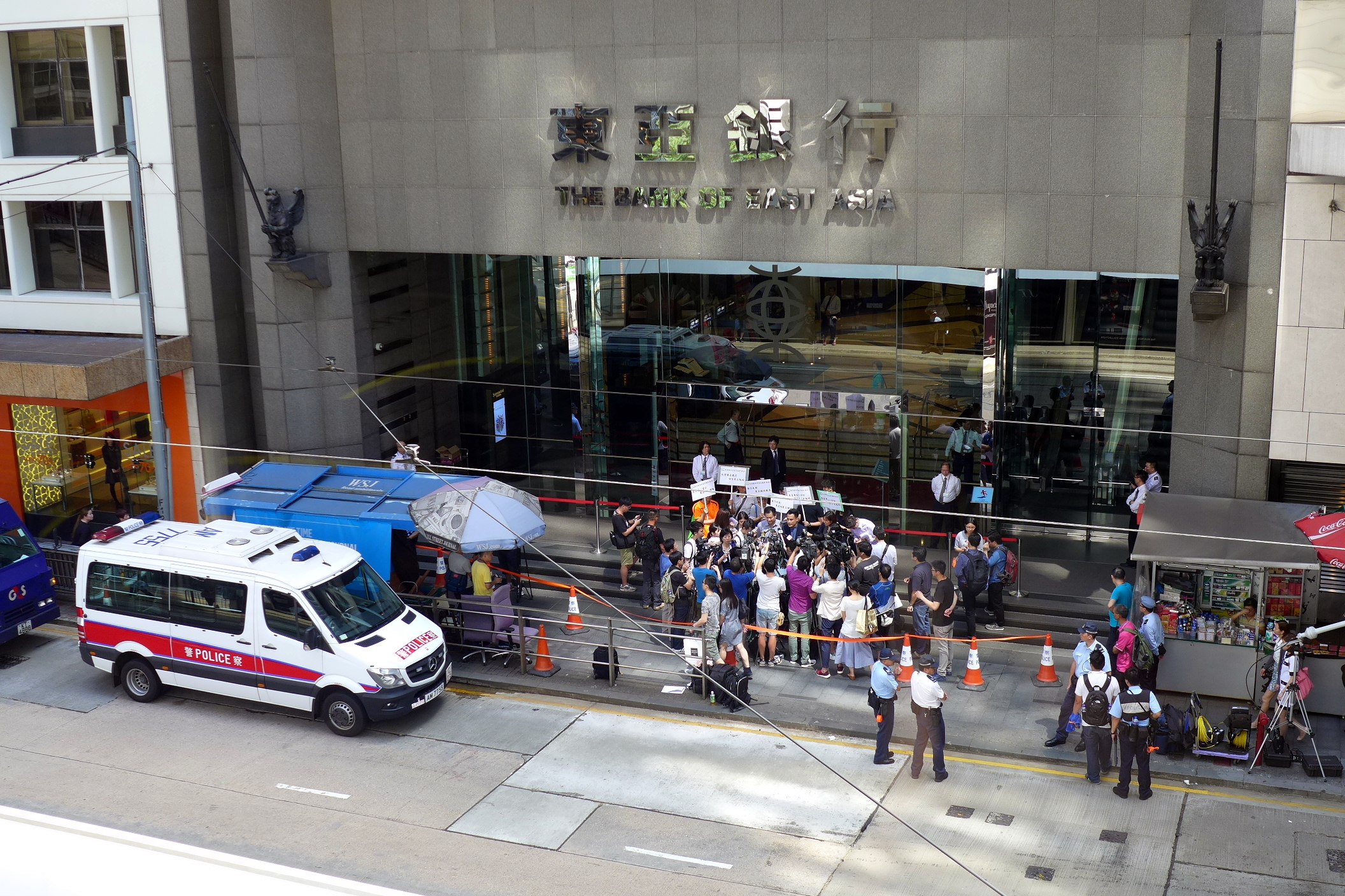 HKBEA Protest